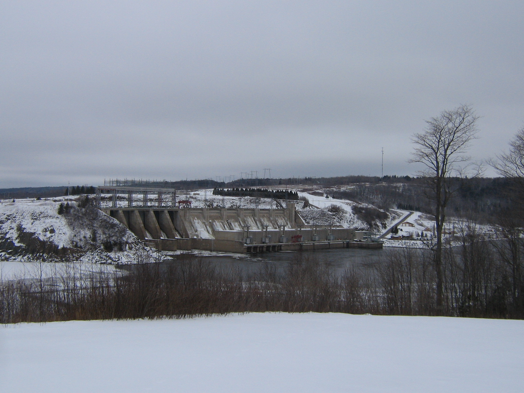 Mactaquac Dam and hydroelectric building, New Brunswick on the Saint John River. Photograph by Scott Davis, 4 January 2005